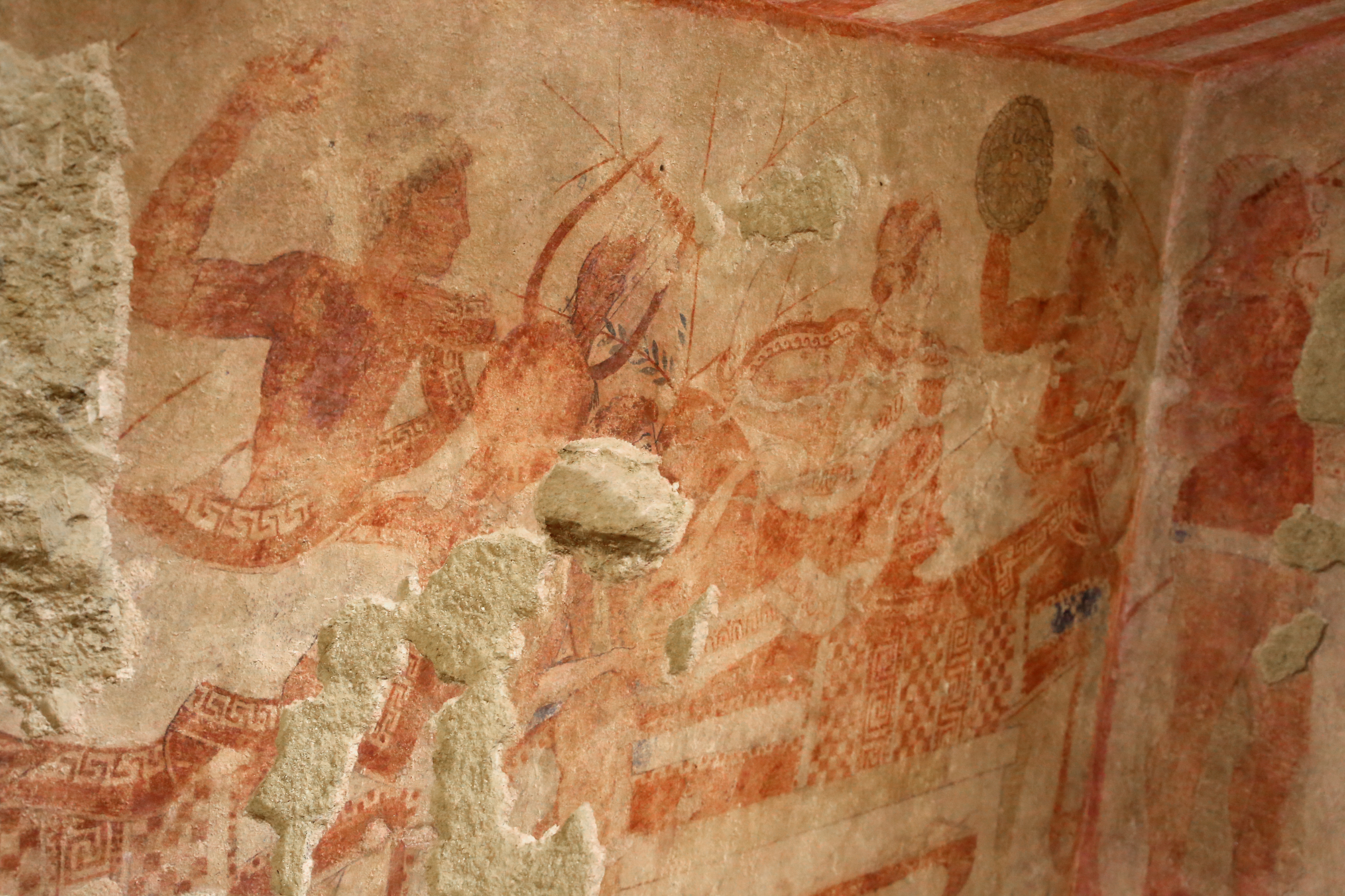 Necropoli dei Monterozzi (Tarquinia)